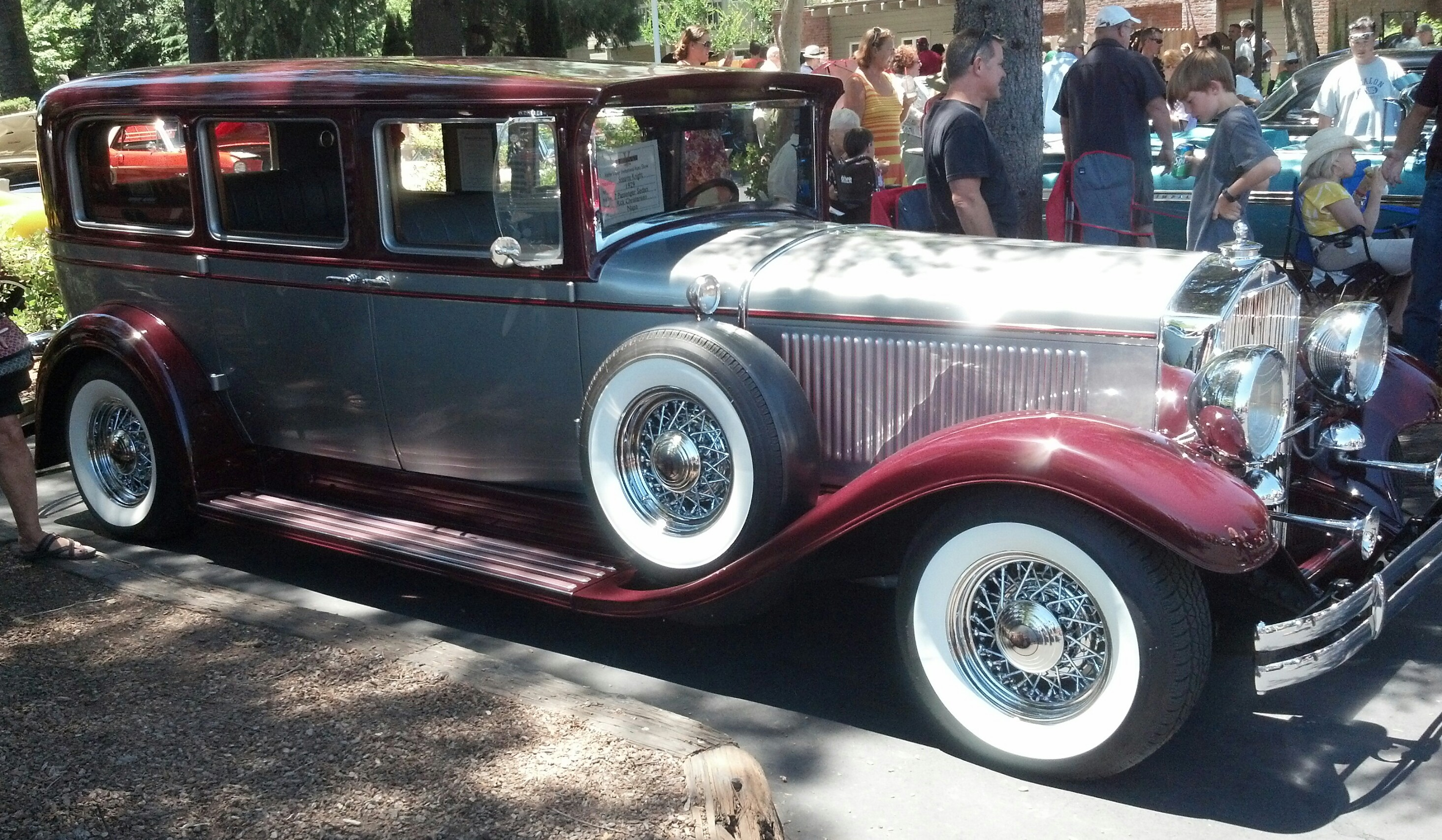 A 1929 Stearns Knight 7 passenger sedan, on display in Yountville, California. Photo by Jim Heaphy.